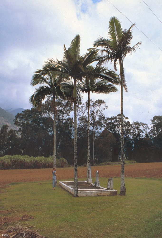 Alley Family Graves, near Gordonvale, 1997